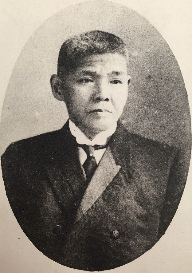 Itami Yataro